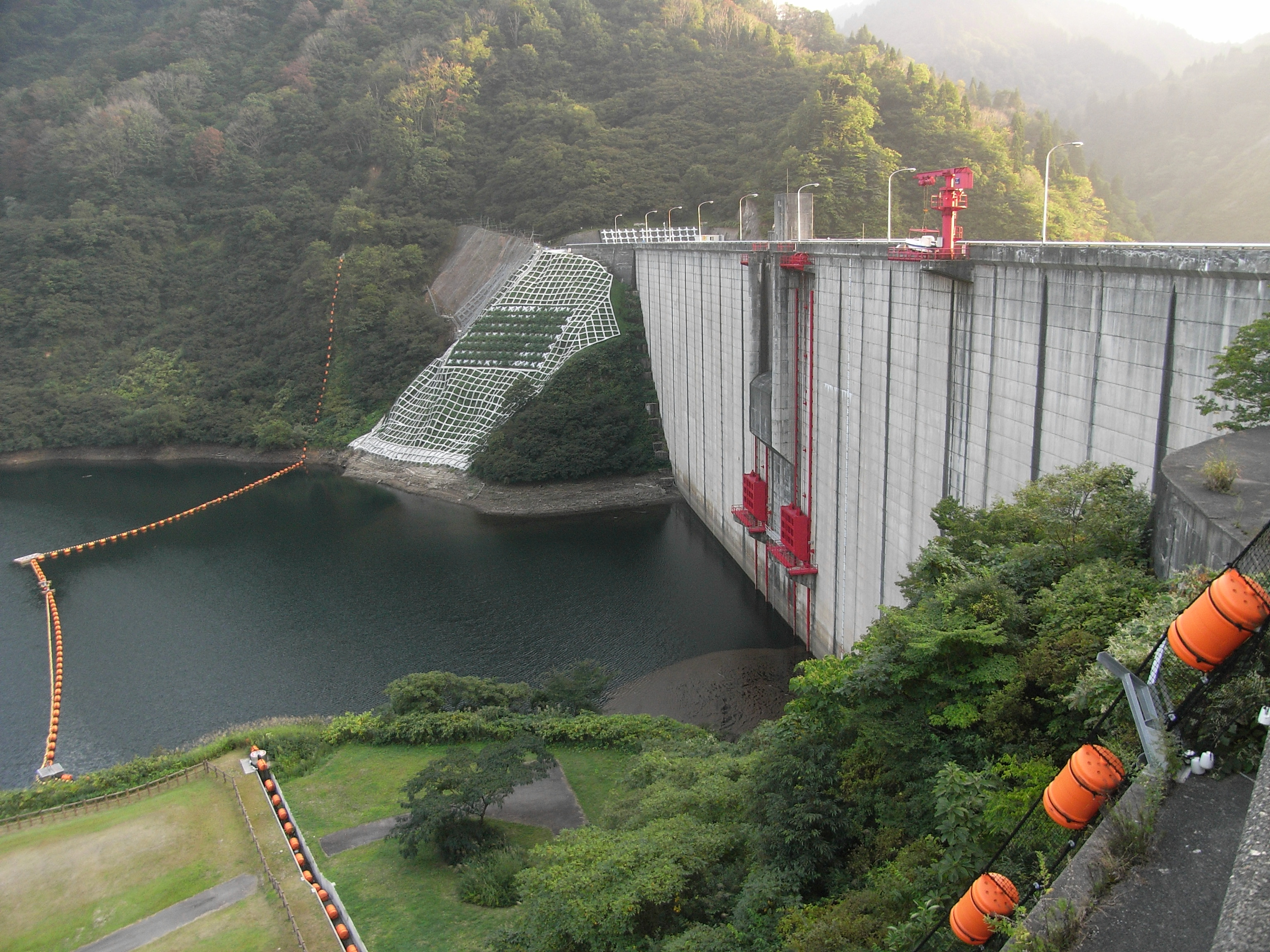 Kajigawachisui Reservoir(Kajigawa river/Niigata Pref./Japan)